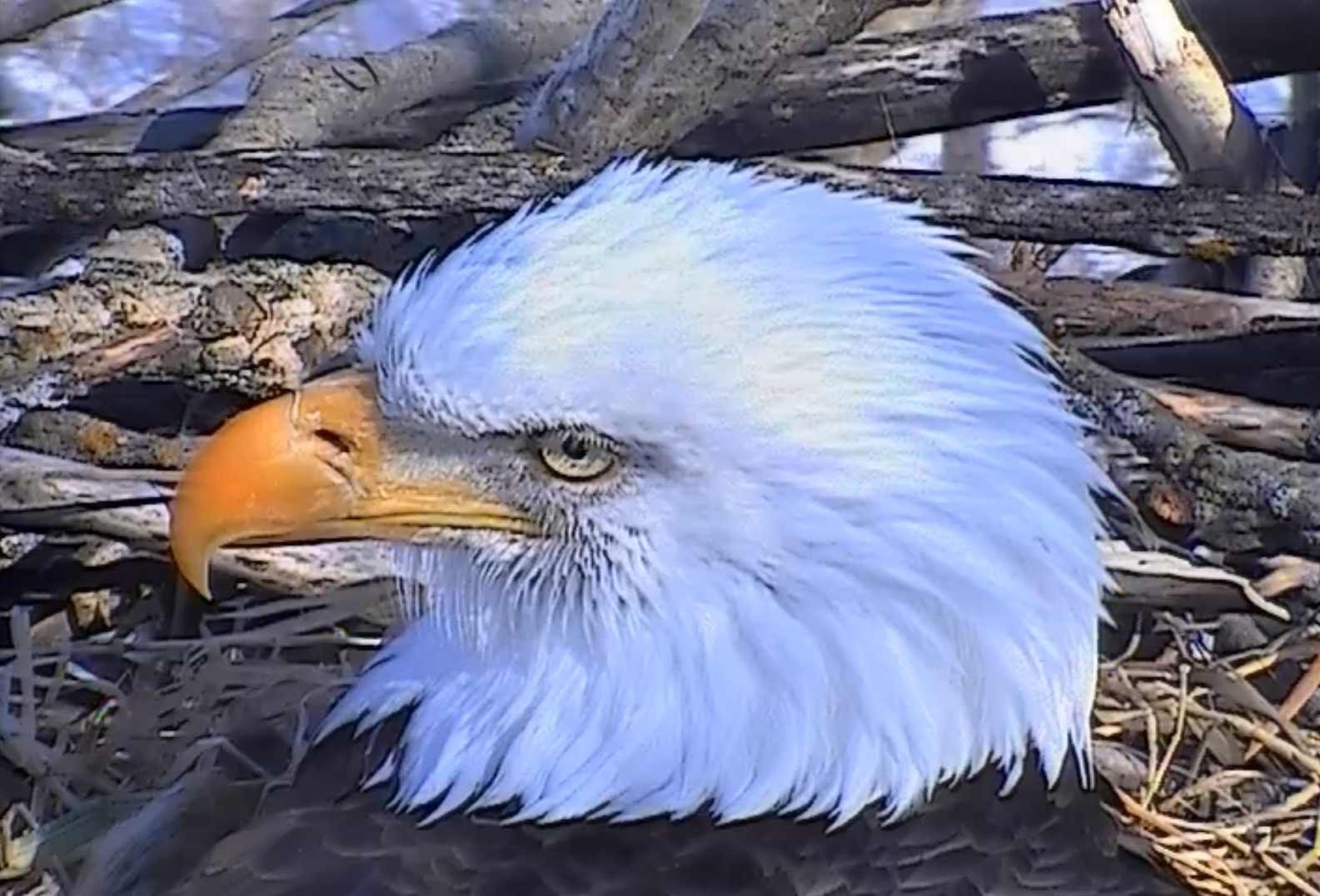 Decorah bald eagle, close-up of "Dad"; screen grab from Ustream.tv